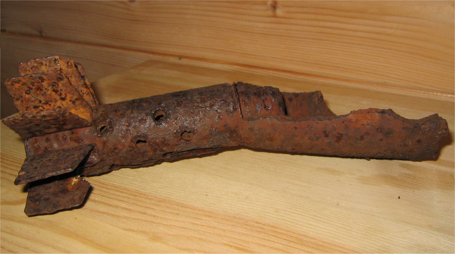 A shrapnel from a 80 mm mortar shell, once fired from Fjell festning (Norway) during WWII. As Fjell festnings close defence was never involved in fighting, this must be from an exercise. The shell is the remaints of Wurfgranate 34 (Wgr 34), designed for standard medium mortar Granatenwerfer 34 (Grw 34).